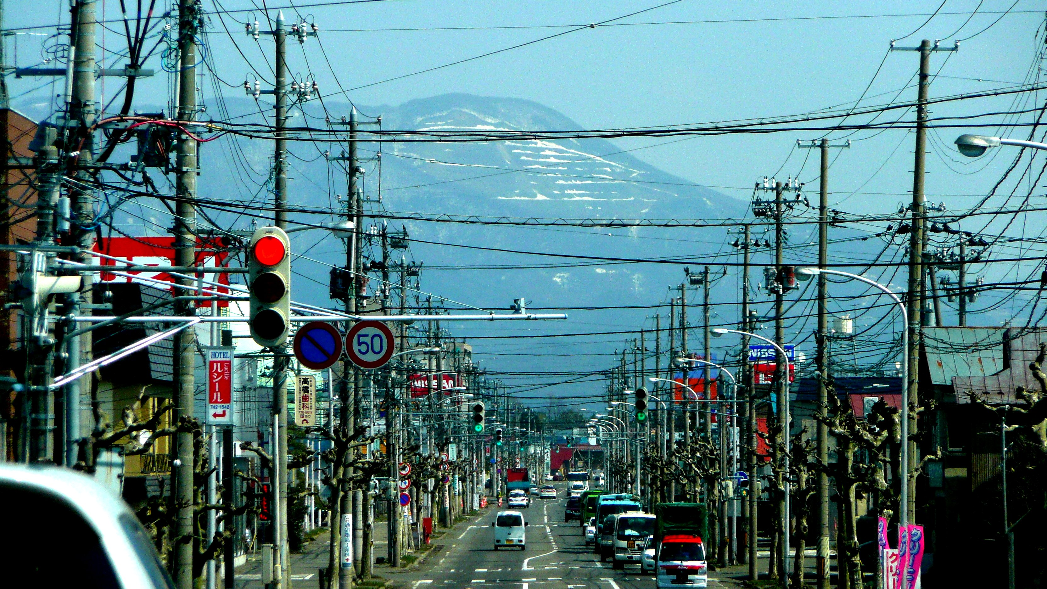 Traffic light in Aomori City, Japan.